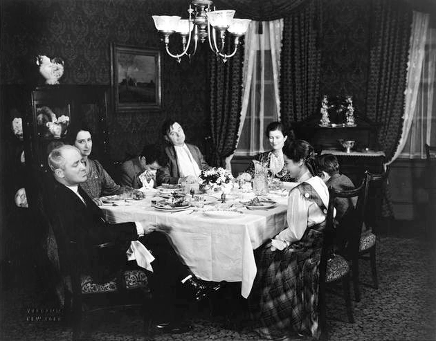 Promotional photograph for the original Broadway production of Ah, Wilderness! Caption reads as follows:The Miller family gather in slightly uncomfortable peace for their Fourth of July dinner in Eugene O'Neill's nostalgic Ah, Wilderness!, which the Theatre Guild has produced with George M. Cohan as the exceeding human father. Left to right around the festive board are father Nat Miller (George M. Cohan) Lily who can't make up her mind to get married (Eda Heinemann), Richard the problem (Elisha Cook, Jr.), Sid who is going to get married when he gives up drinking (Gene Lockhart), Mrs. Nat Miller who is nervously tolerant of everybody else's vices (Marjorie Marquis), Tommy who is just a small boy (Walter Vonnegut, Jr.) and Mildred the 1906 flapper (Adelaide Bean).